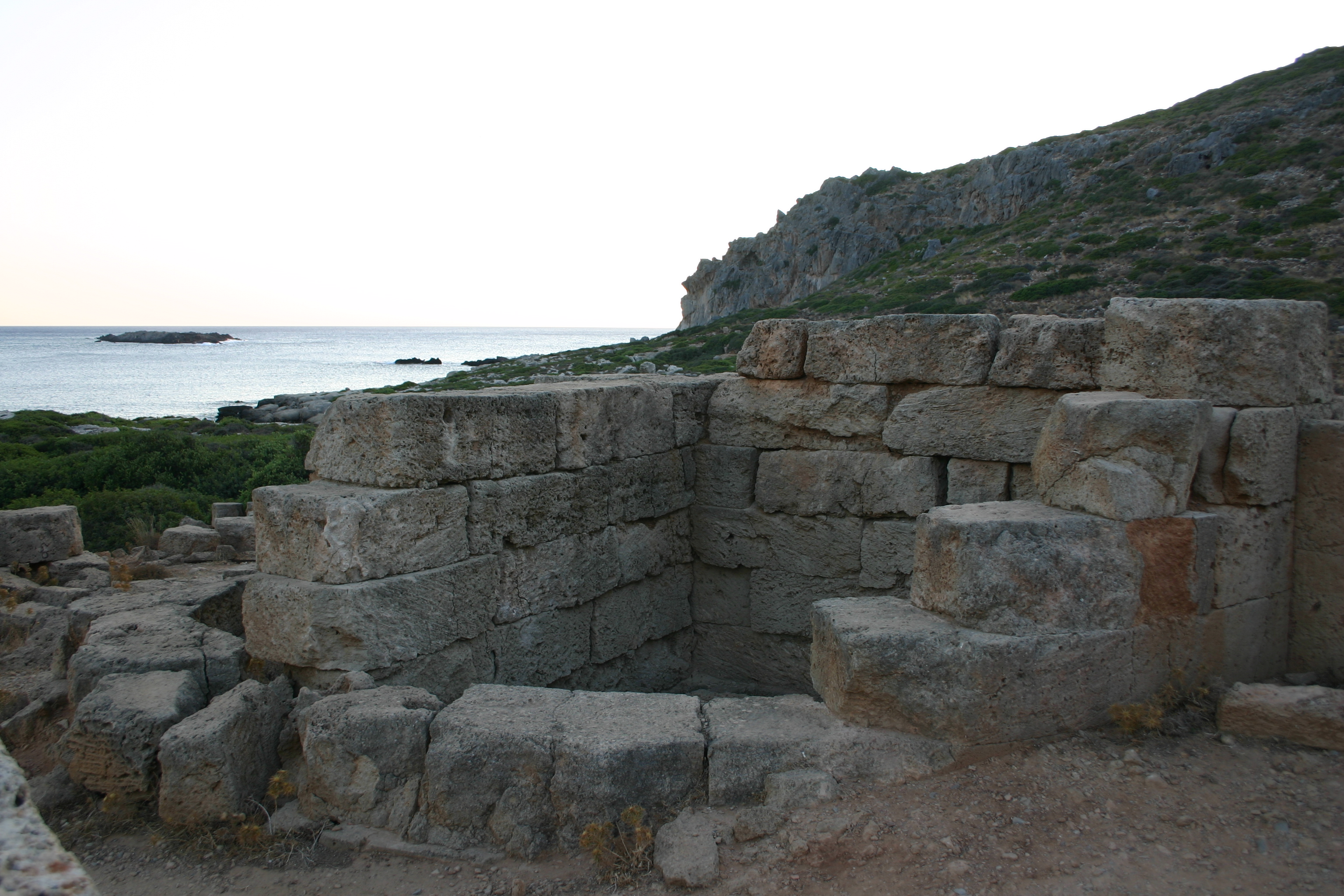 This is a photograph of a round sandstone tower of the Hellenistic period excavated by Elpida Hadjidaki starting in 1986